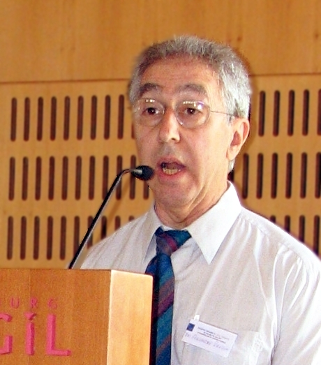 Dr. A. Berzin speaking at an international conference in 2007